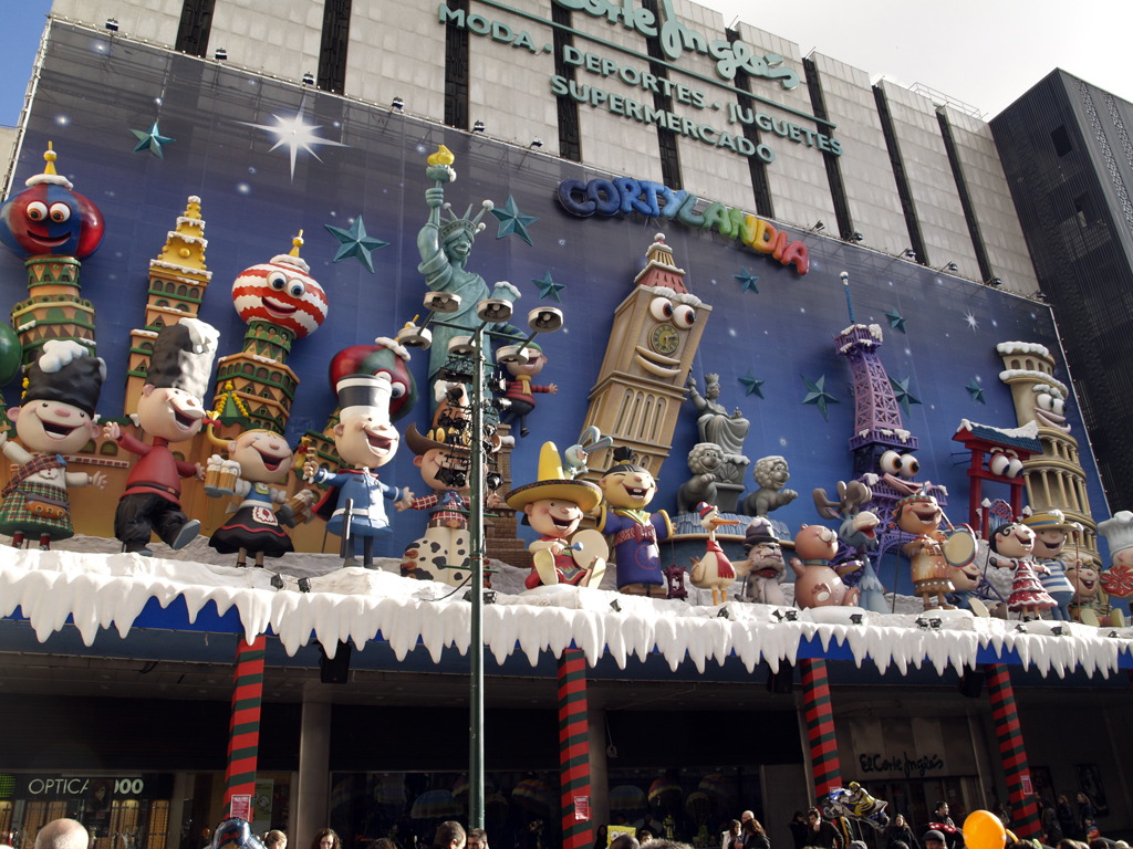 Cortylandia Show in Madrid (Christmas 2010-2011)